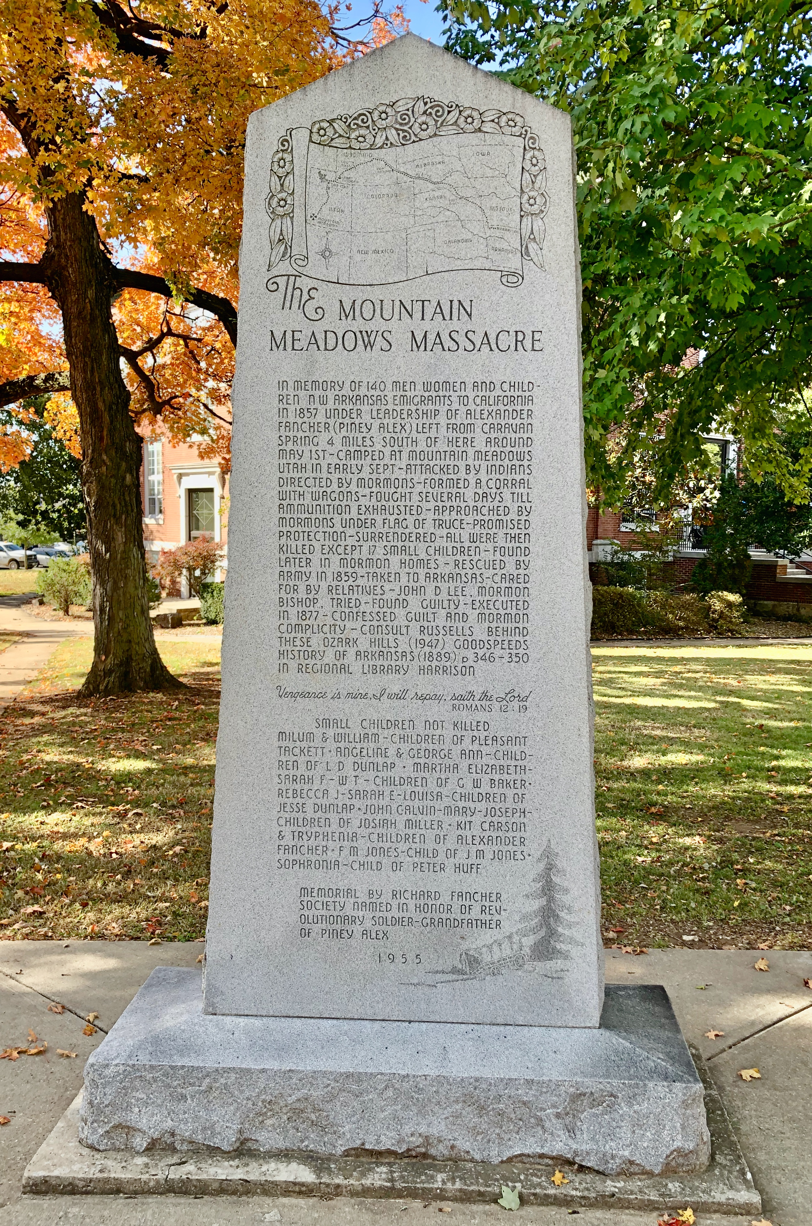 One of many remembrances of the 1857 Mountain Meadows Massacre in Utah.